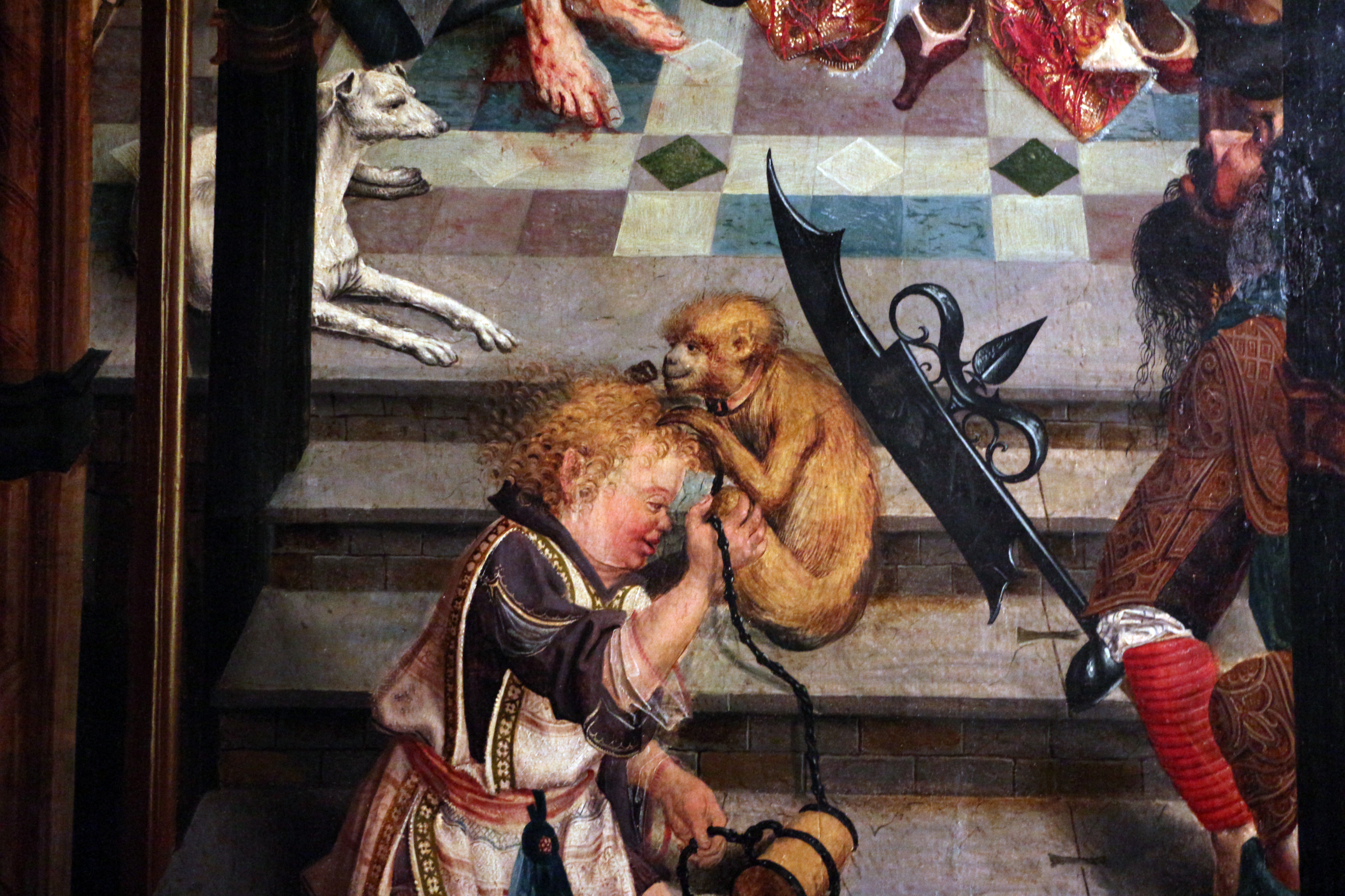 Paintings in the Aachen Cathedral Treasury